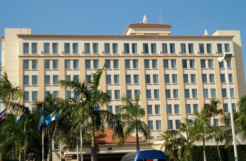 Hotel In San Pedro Sula, Honduras 2015